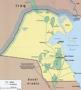 The UN Iraq-Kuwait observer mission (UNIIKOM) demilitarized border zone near the Iraqi-Kuwait Border.